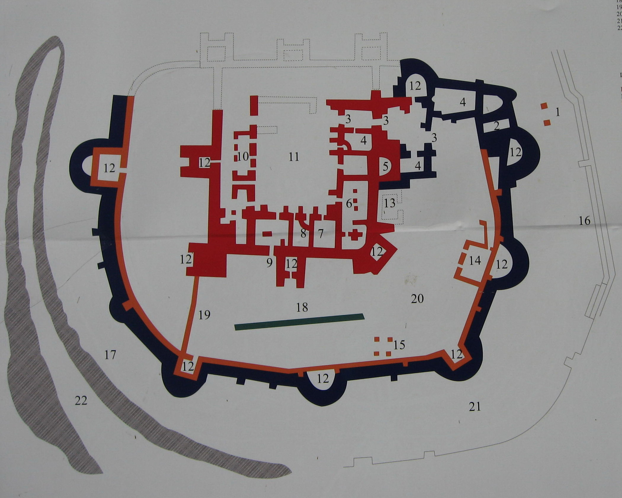 Seat Fortress of Suceava – the fortress plan located on a panel at the fortress entrance.